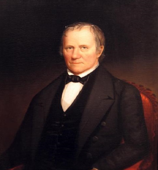 Ashur Ware, Secretary of State of Main, Maine Memory Network